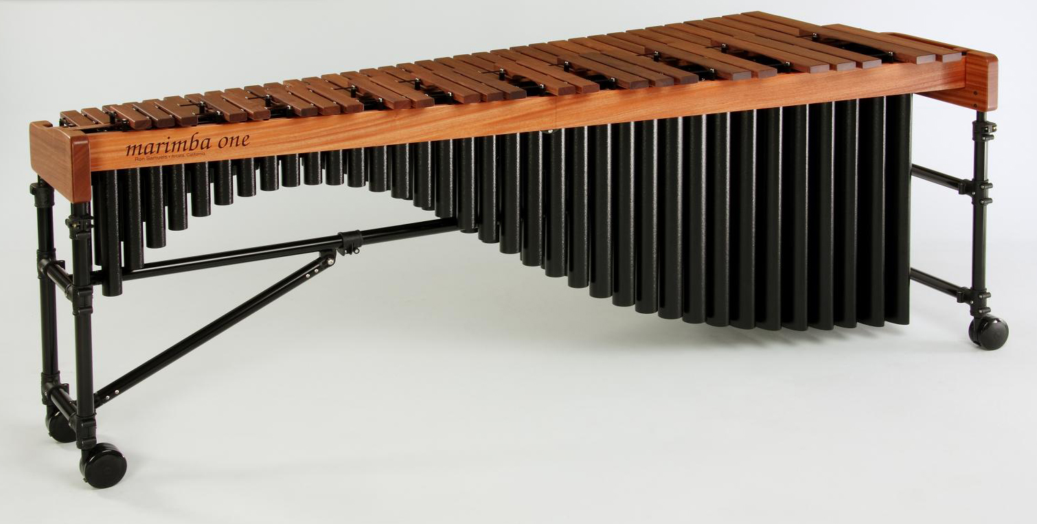 Marimba One 4000-series Concert Marimba